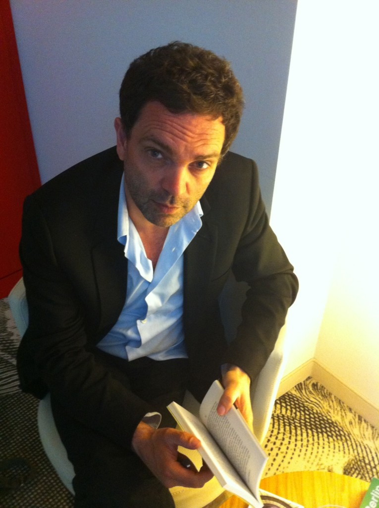 Yann Moix